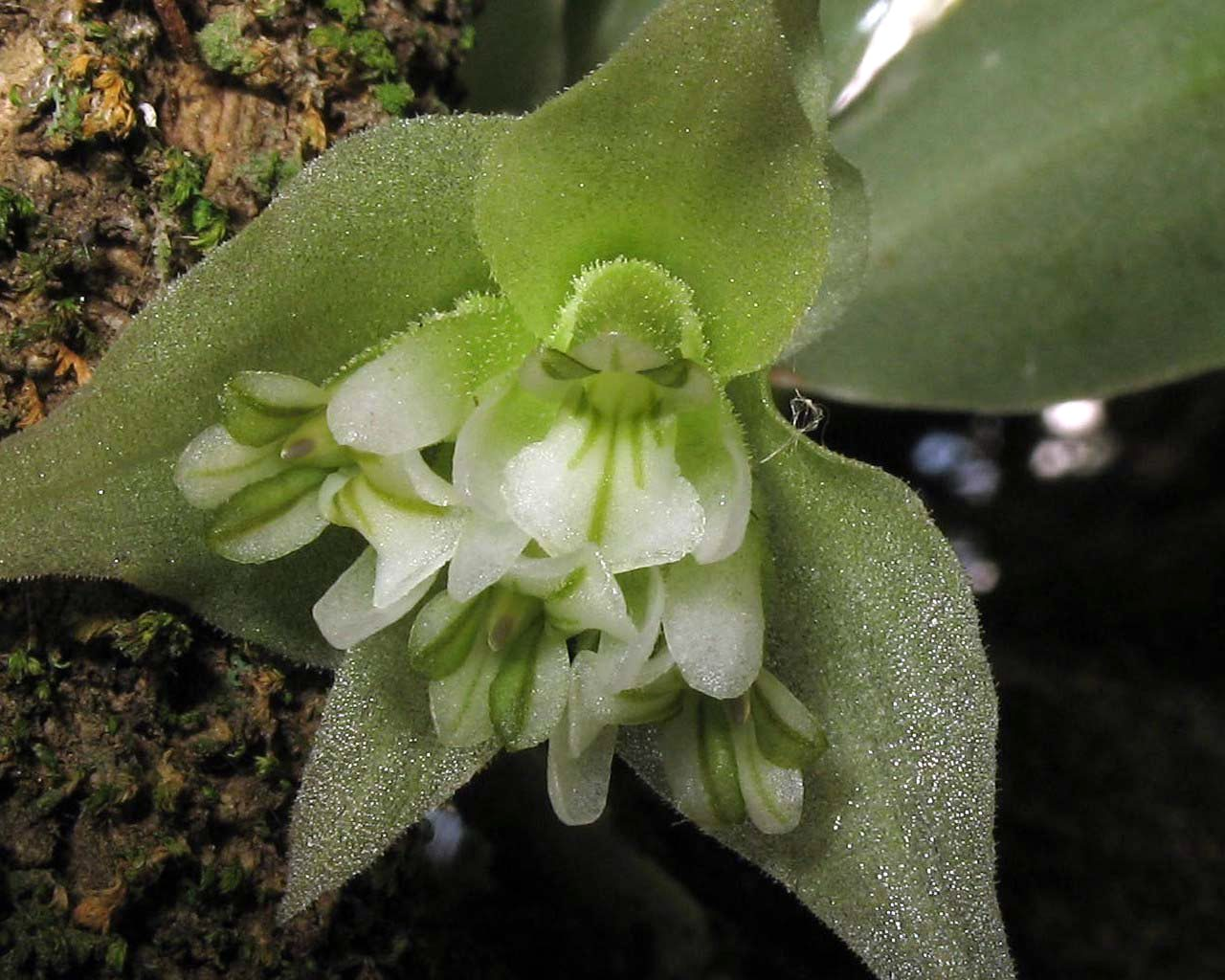 Pseudoeurystyles gardneri